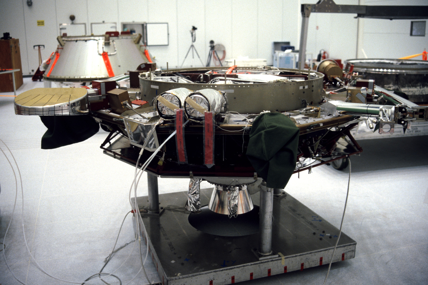 The Viking satellite is equipped with a solid propellant rocket motor during the final assembly.